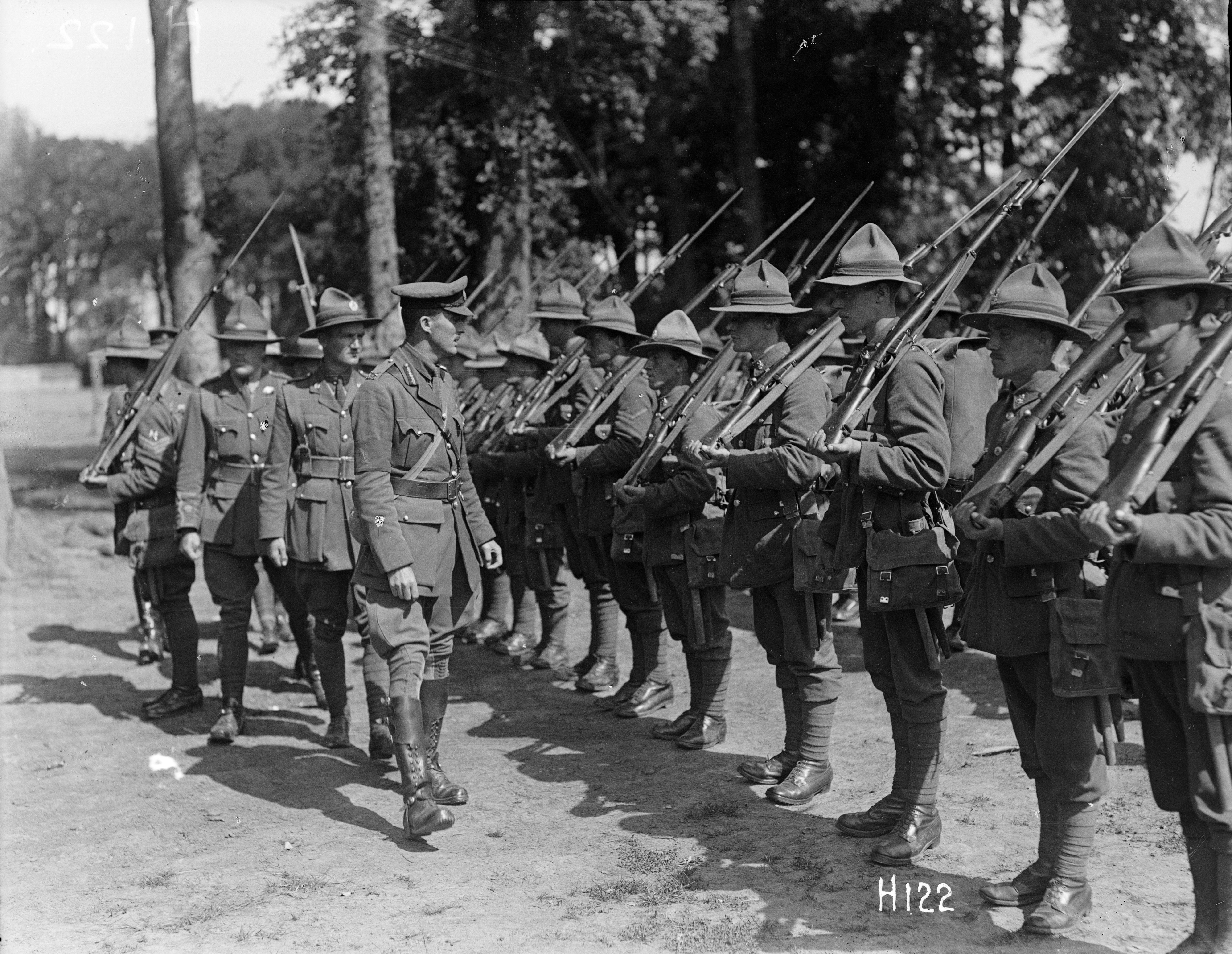 Brigadier General Hart shown inspecting New Zealand soldiers of the 4th Infantry Brigade, stationed in France during World War I. Photographed 6 July 1917 by Henry Armytage Sanders. Sanders was an official photographer of the NZ Military Forces during WWI and thus copyright in this work rests or rested with the Crown. The Crown has released this work under the CC-BY 3.0 unported license. Refer to source website for details: This work's copyright expired 50 years after creation in New Zealand and probably also in countries following the rule of the shorter term.